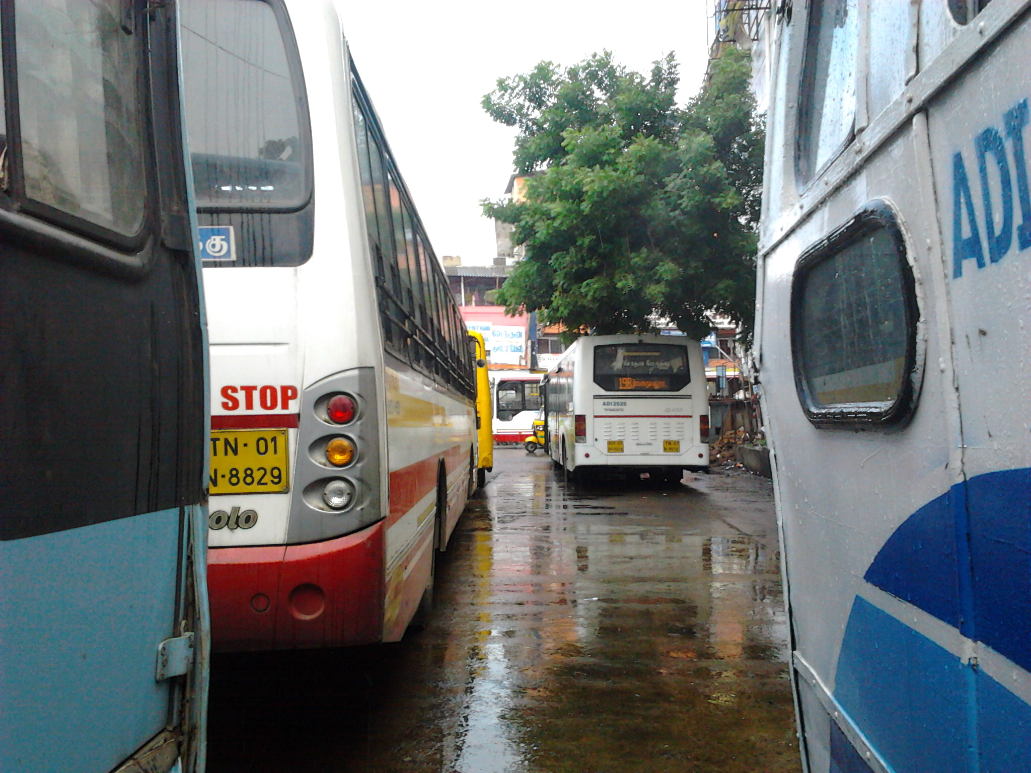 Photoed using Samsung Wave 525.